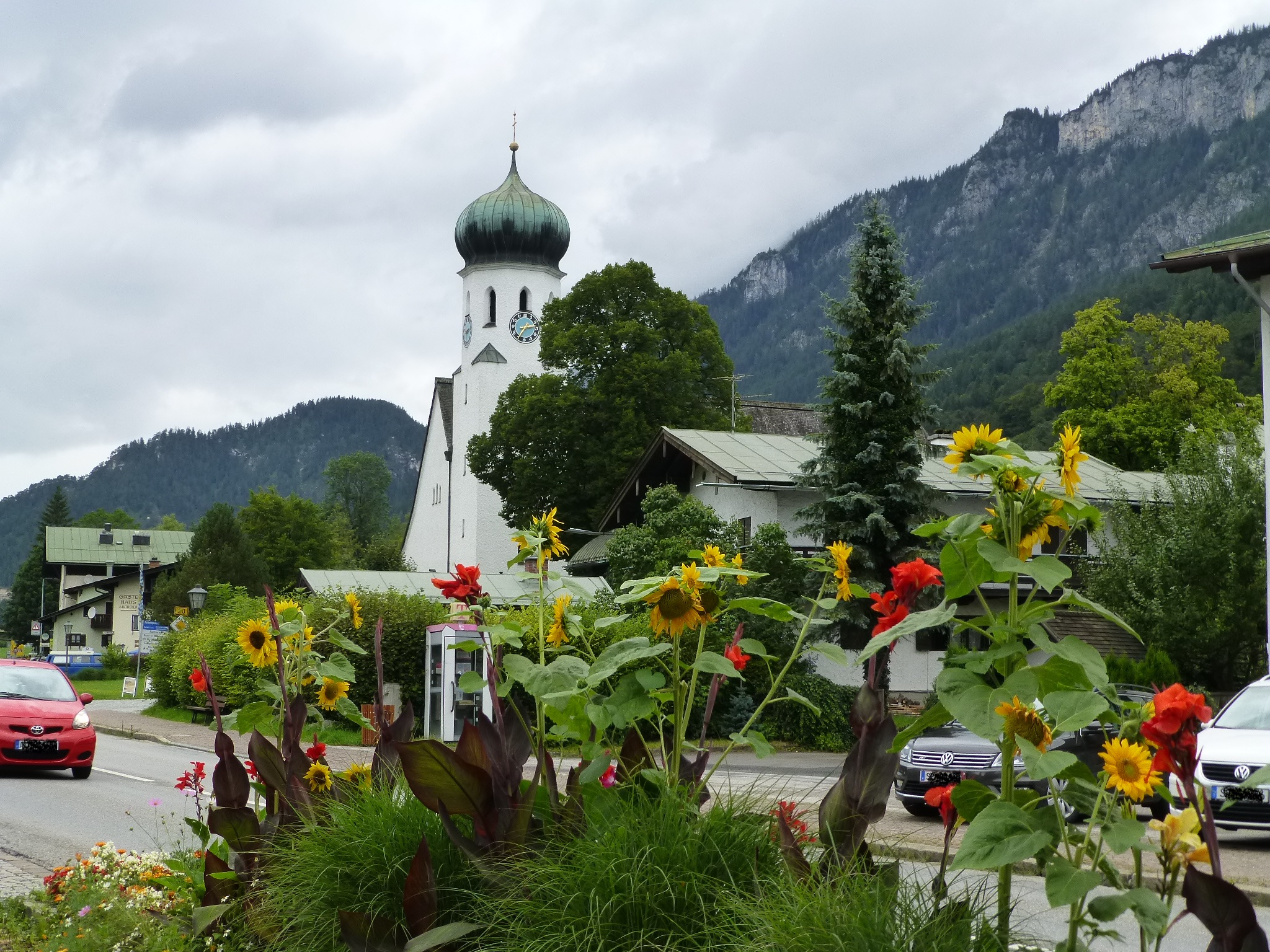 Church in Bischofswiesen, near Berchtesgaden.